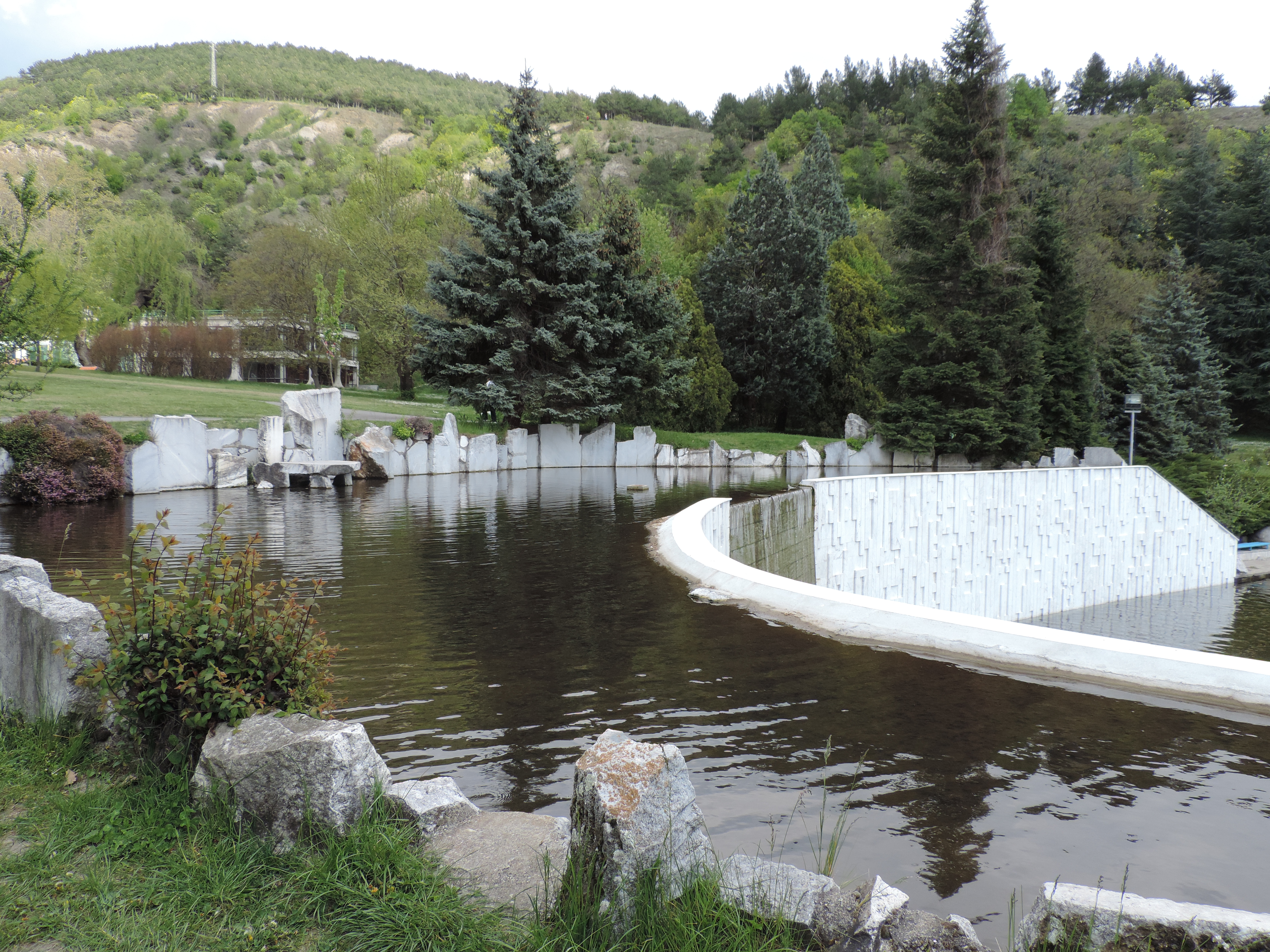 St. Vrach park, Sandanski, Bulgaria